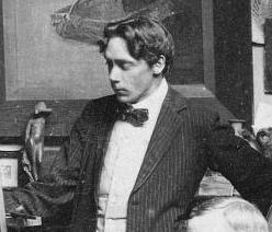 Raymond McIntyre painting in a Canterbury Society of Arts art class, New Zealand. c.1912. Photo cropped from original.